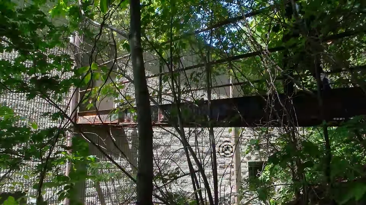 "скрытая установка около Новоянтузово" из 4chan